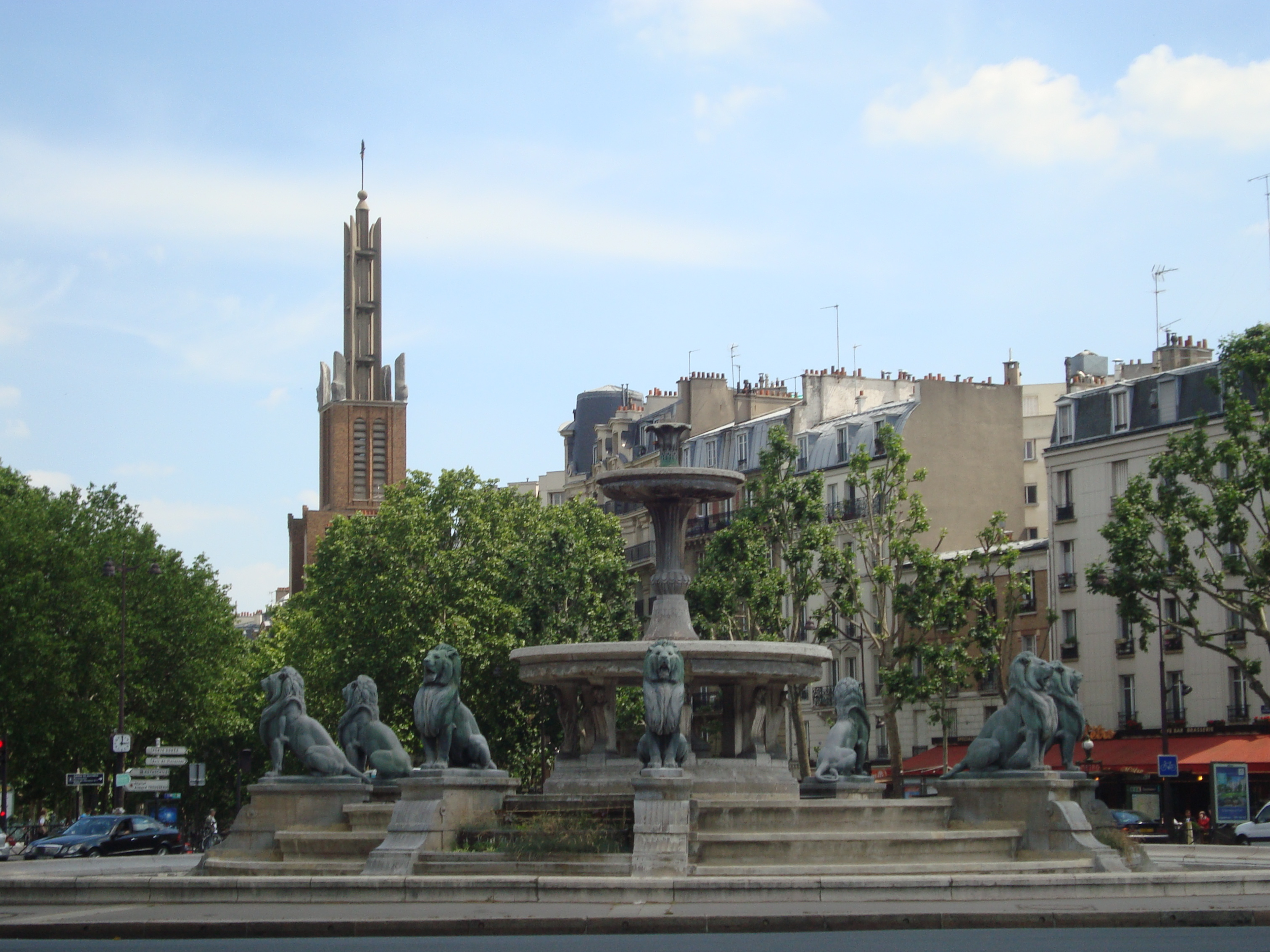 View of the fountains of the place Felix-Éboué (previously place Daumesnil)